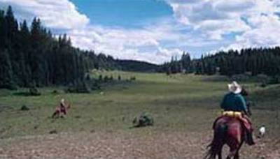 A photo of San Pedro Parks Wilderness.